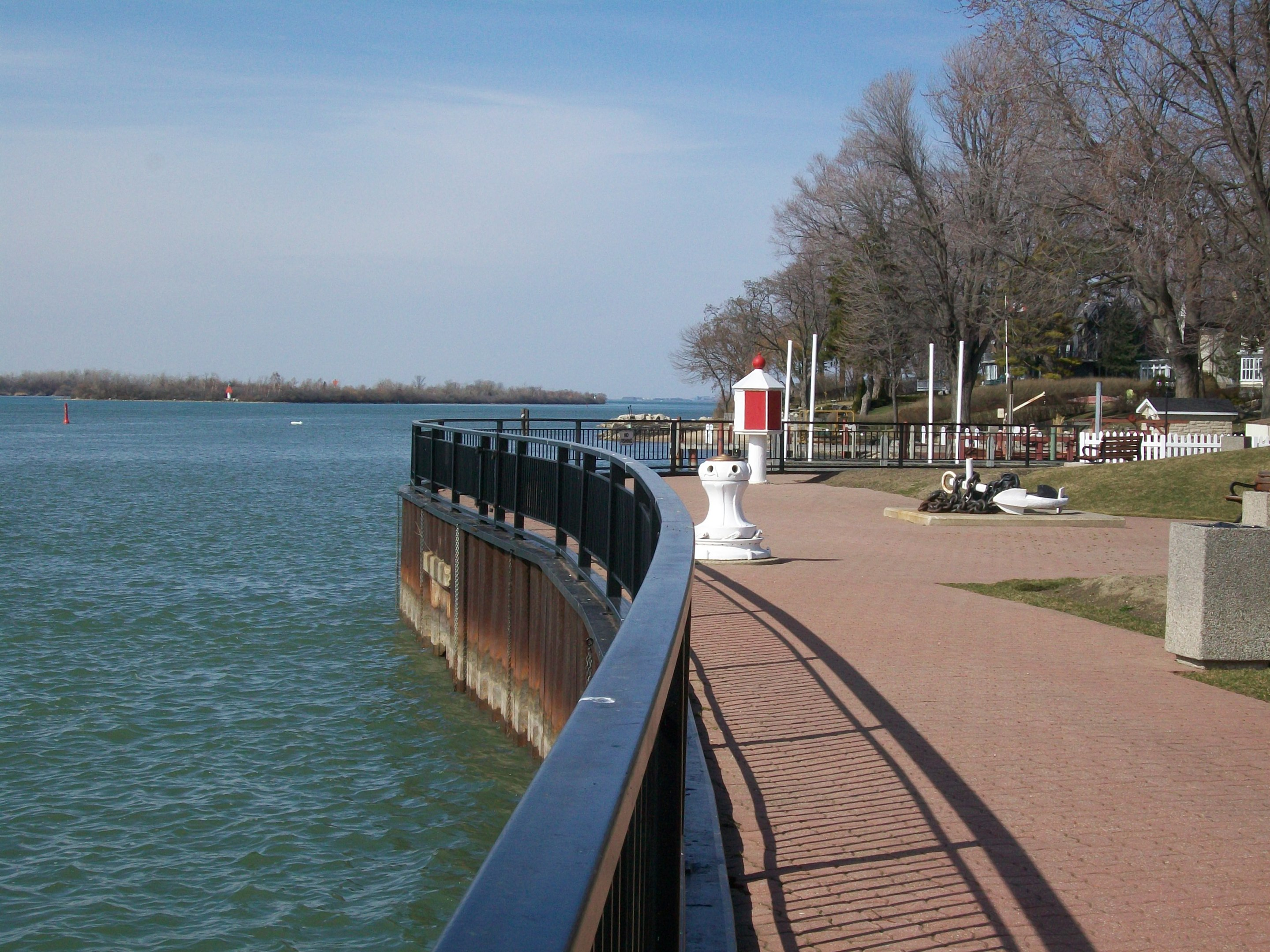 Kings Navy Yard, Amherstburg.